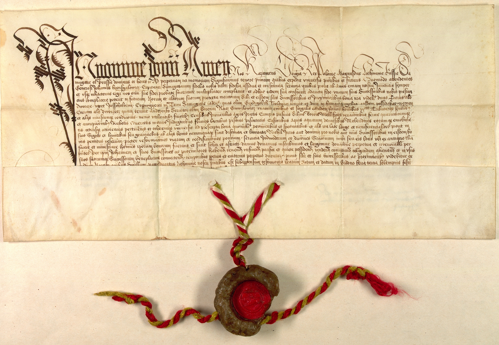 Law of privilege granted by King of Poland and Grand Duke of Lithuania Casimir IV Jagiellon in 1465 to Johannes Kyensgalowicz, in Latin